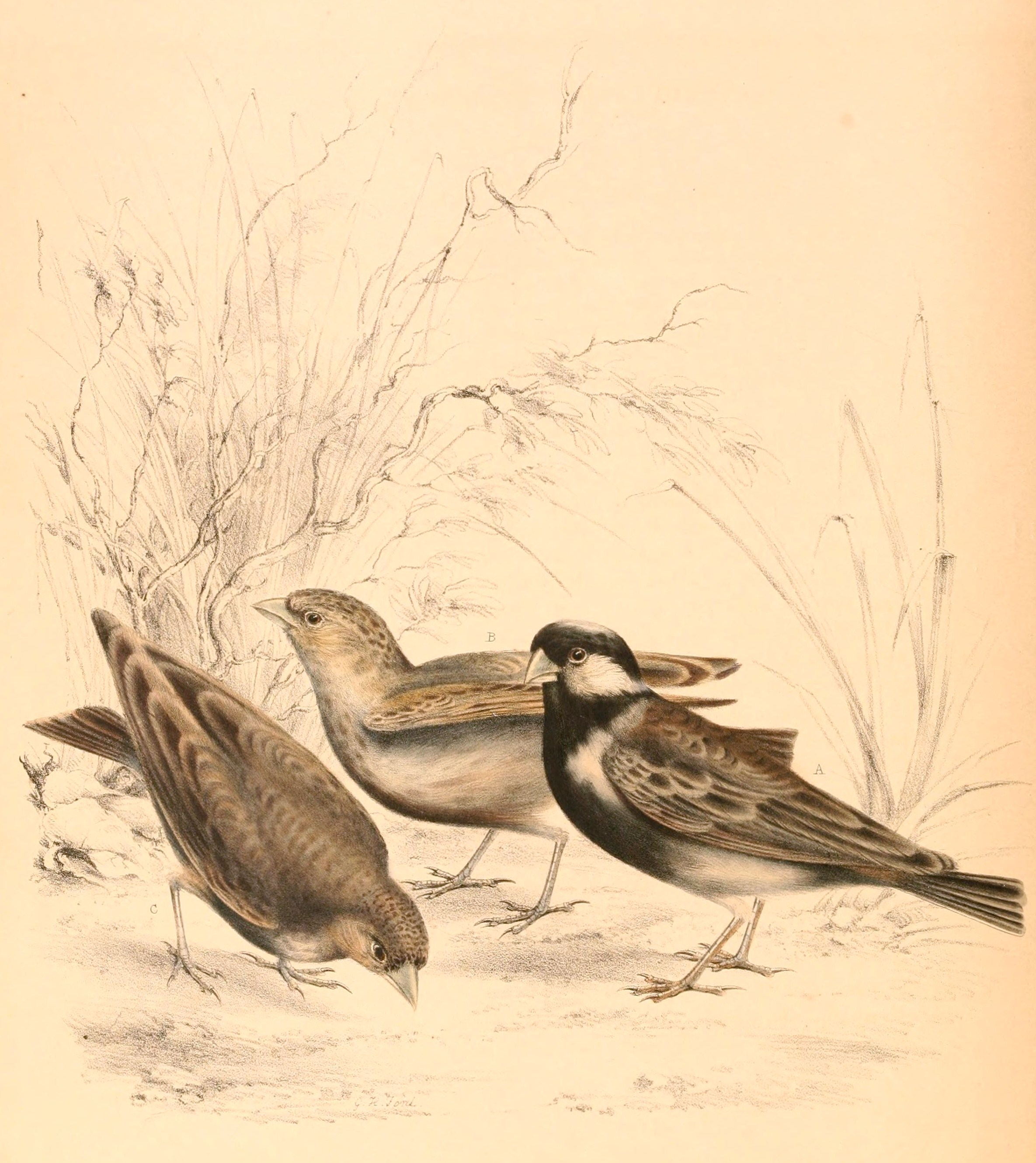 « Pyrrhulauda verticalis » = Eremopterix verticalis verticalis (Subspecies of Grey-backed Sparrow-Lark) - male on the right, female in the middle and young on the left